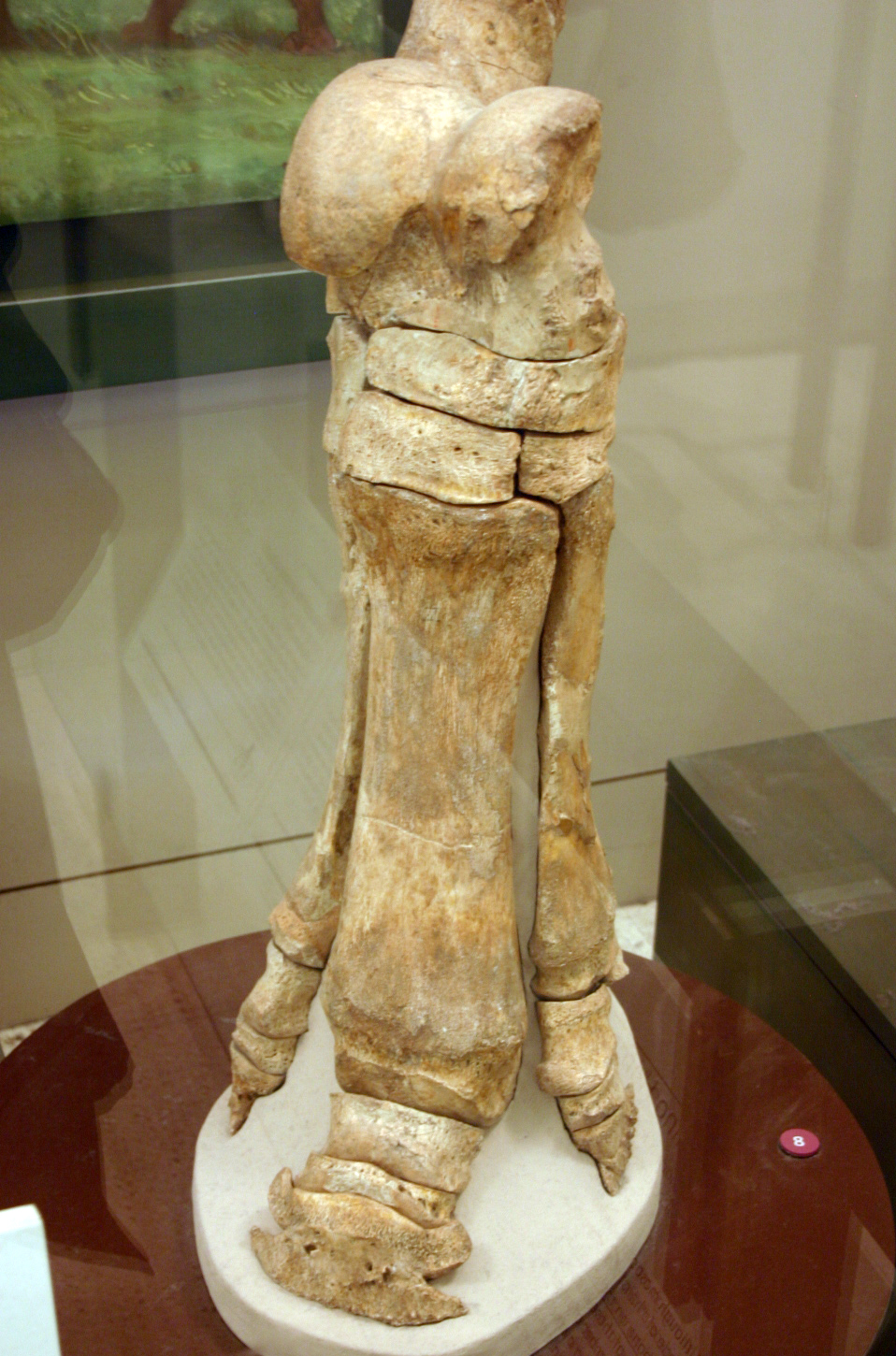 Indricotherium transouralicum, one of the largest land mammals ever